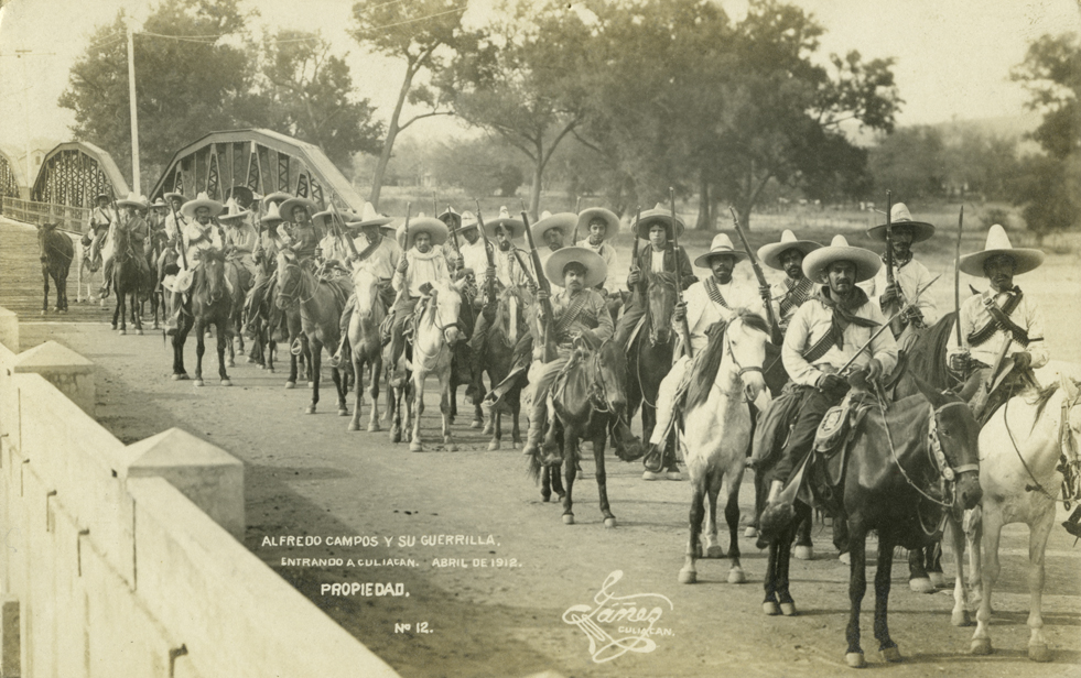 Title: Alfredo Campos y Su Guerrilla, Entrando a Culiacan, Abril de 1912 Creator: Yanez Date: April 1912 Part Of: American border troops and the Mexican Revolution Place: Culiacan, Sinaloa, Mexico Physical Description: 1 photographic print (postcard): gelatin silver File: ag1982_0015_003c_campos.jpg Rights: Please cite DeGolyer Library, Southern Methodist University when using this file. A high-resolution version of this file may be obtained for a fee. For details see the web page. For other information, . For more information and to view the image in high resolution, see: View the Mexico: Photographs, Manuscripts, and Imprints Collection